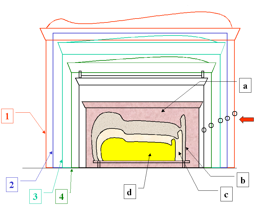 Shrines and sarchophagus of Tutankhamun, in KV62.